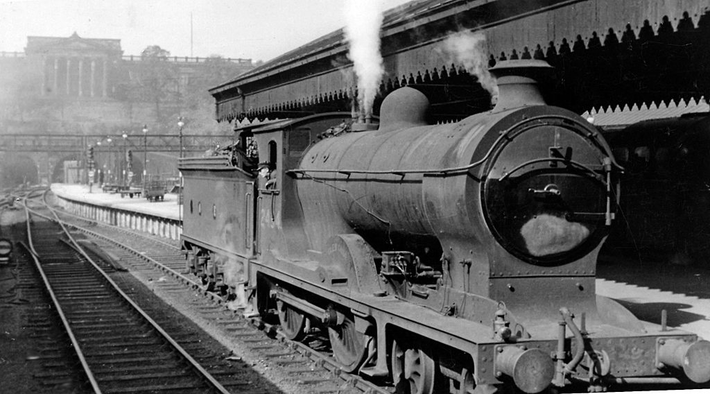 A North British 'Glen' 4-4-0 at Edinburgh Waverley. View westward, probably of Platform 17 at the west end of Edinburgh Waverley Station, with The Mound Tunnel with the National Gallery of Scotland above it in the background. No. 2494 'Glen Gour' (Built 07/1920) was a St Margarets engine, employed on a variety of secondary passenger services. (This was the day after the Great Borders Floods).